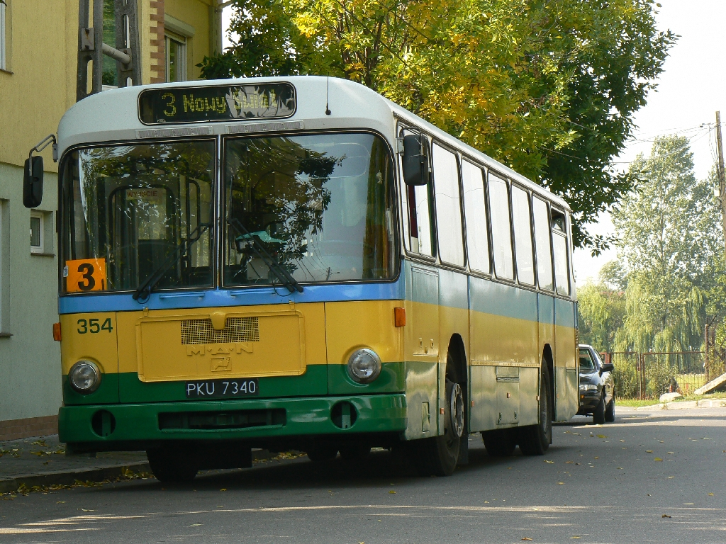 MAN SL200 in Bełchatów, Poland. Year built 1980. MZK Bełchatów company.